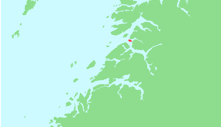 Locator map of Prestmåsøya, Nordland, Norway